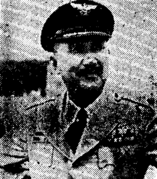 Lieutenant General Jang Duk-chang, Korean Air Force Chief of Staff, led a visiting friendship delegation made up by seven ROKAF officers, and take the ROKAF special flight, arriving at Taipei Songshan Airport at 5:00 pm yesterday.